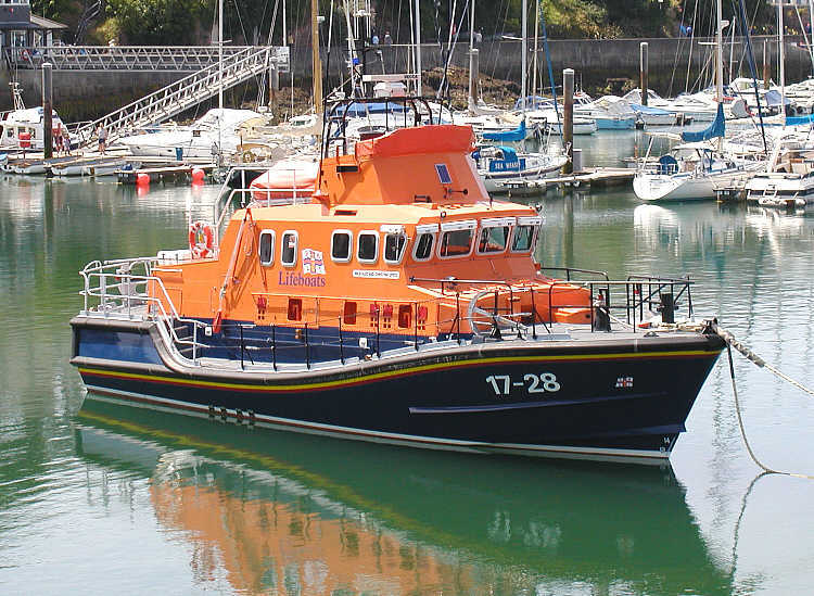 "RNLB Alec and Christina Dykes" (17-28), the lifeboat at Brixham, south Devon, England, kept permanently afloat in the harbour. For this location a land based lifeboat house is not needed since the waters of the harbour are fairly tranquil.